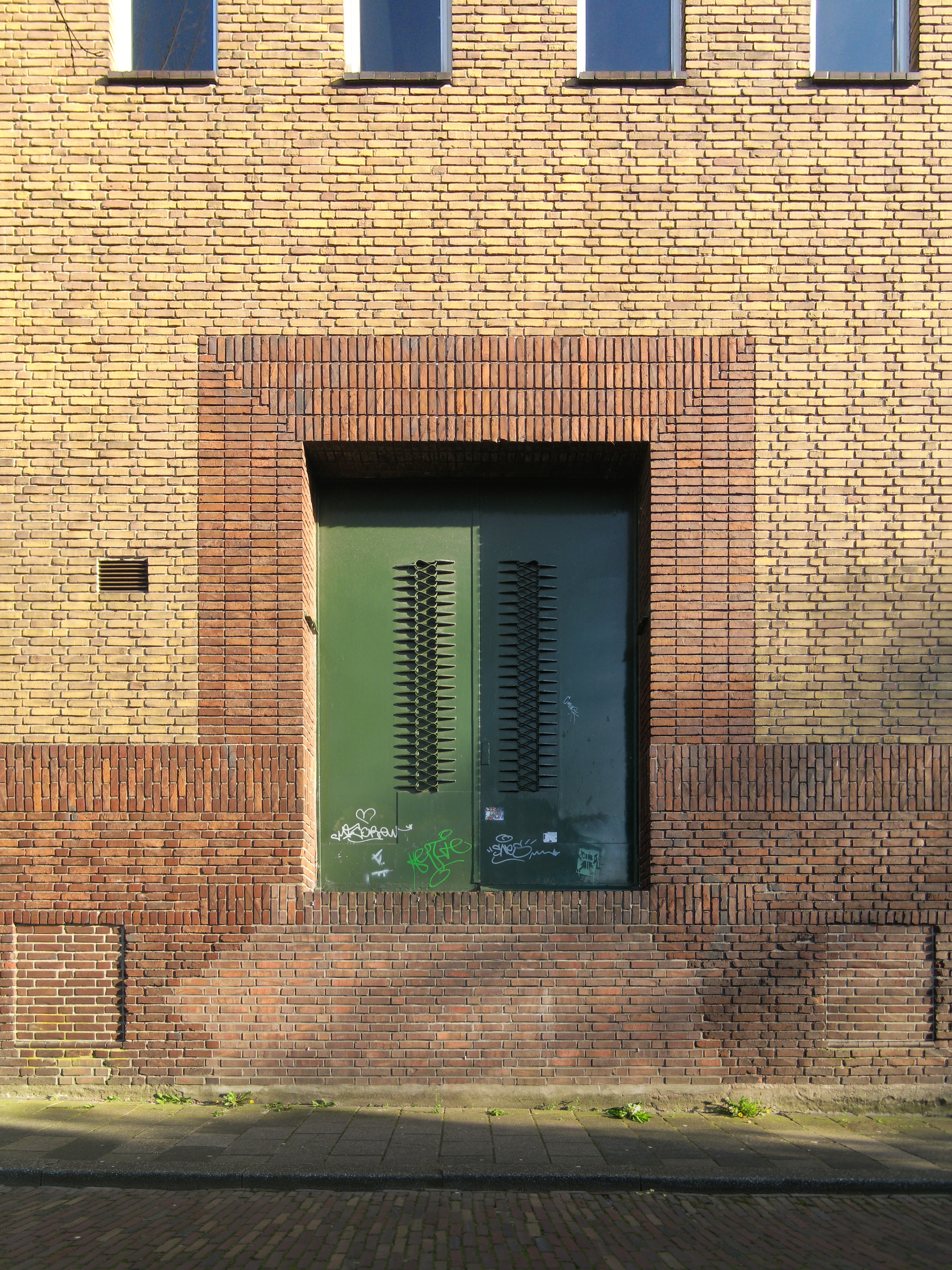 Doors in an exterior wall of the Puddingfabriek, a former factory (1931, Kuiler & Drewes) in the Dutch city of Groningen.